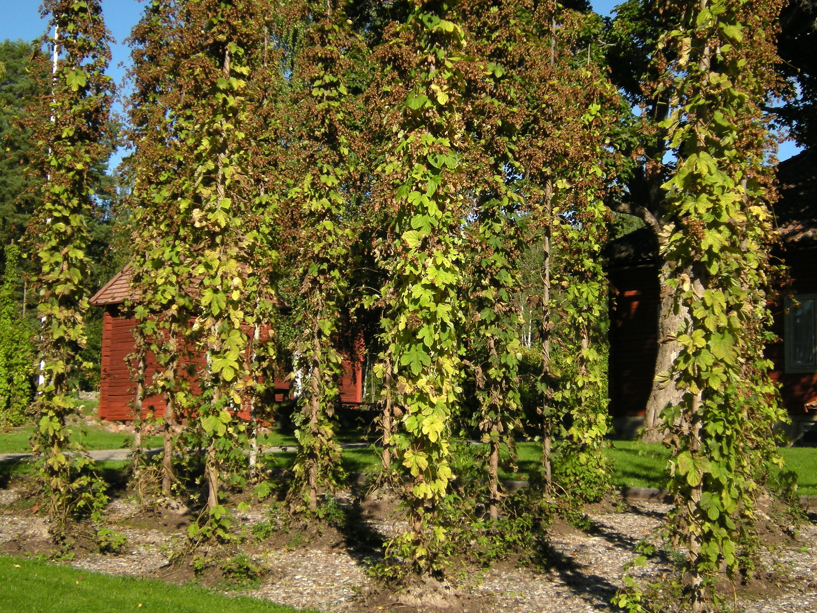 Hop garden at Staberg in Dalarna, Sweden